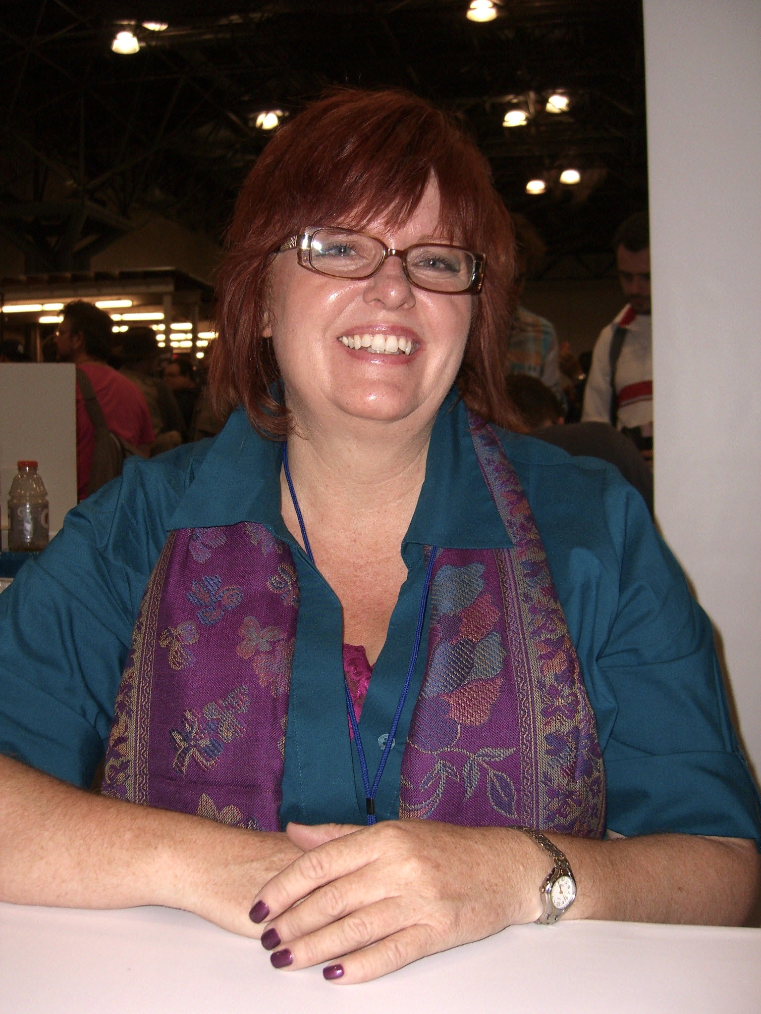 Comic book creator Gail Simone at the New York Comic Convention in Manhattan, October 9, 2010. This photo was created by Luigi Novi. It is not in the public domain, and use of this file outside of the licensing terms is a copyright violation.